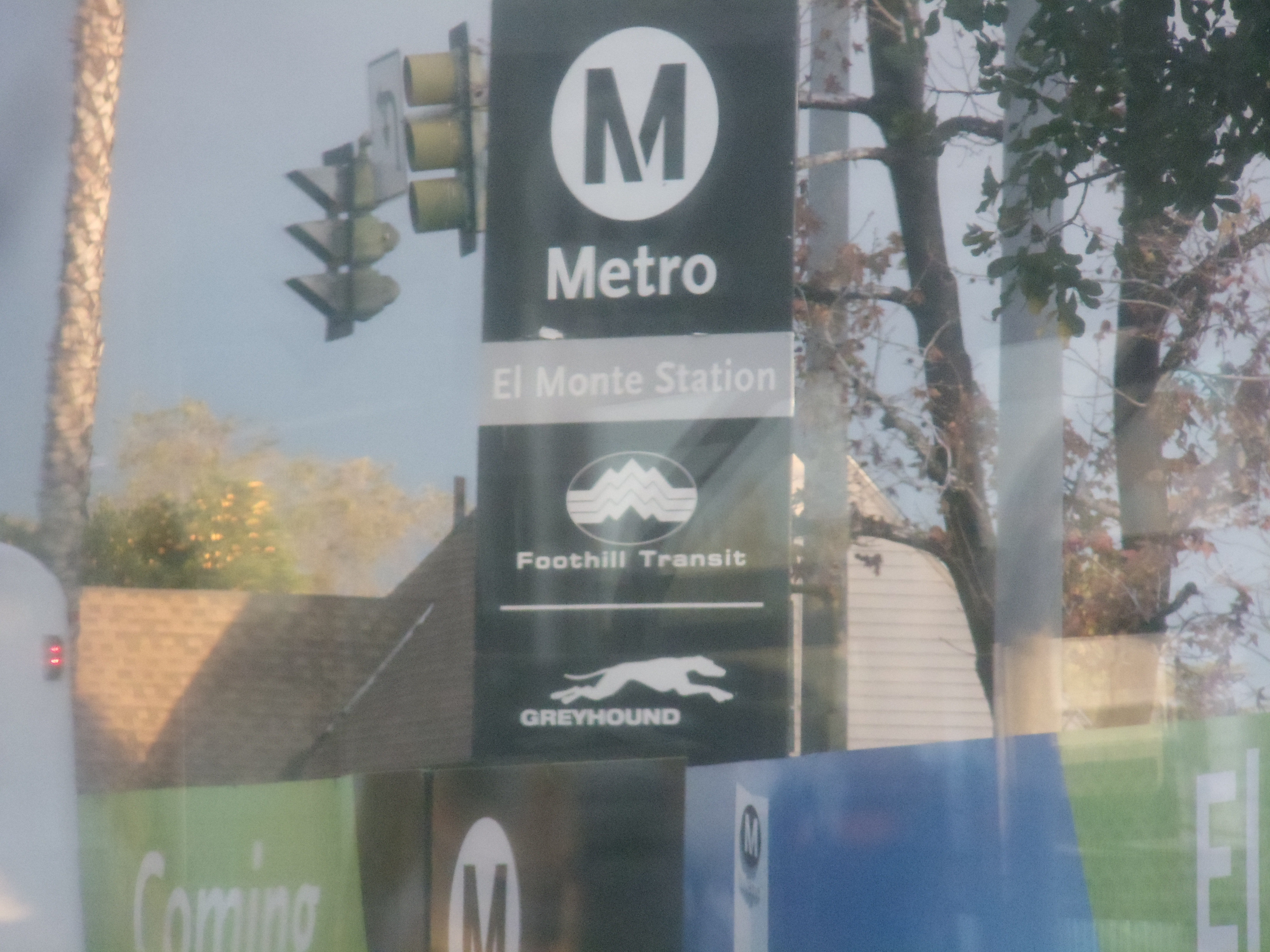 El Monte Metro Silver Line Station- Temporary Pylon Sign